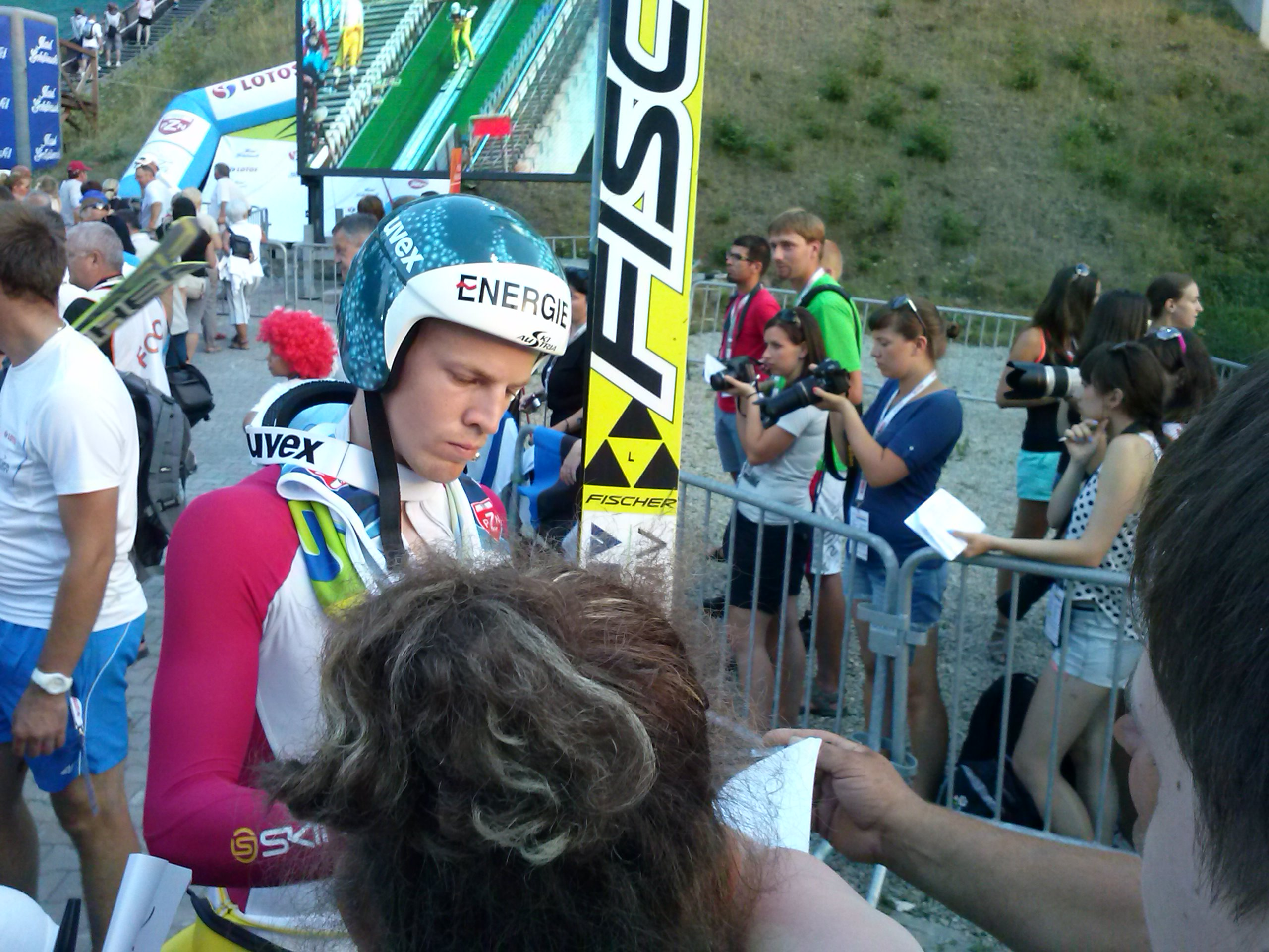 Michael Hayböck - austrian ski jumper during FIS Summer Grand Prix 2013 in Wisła.